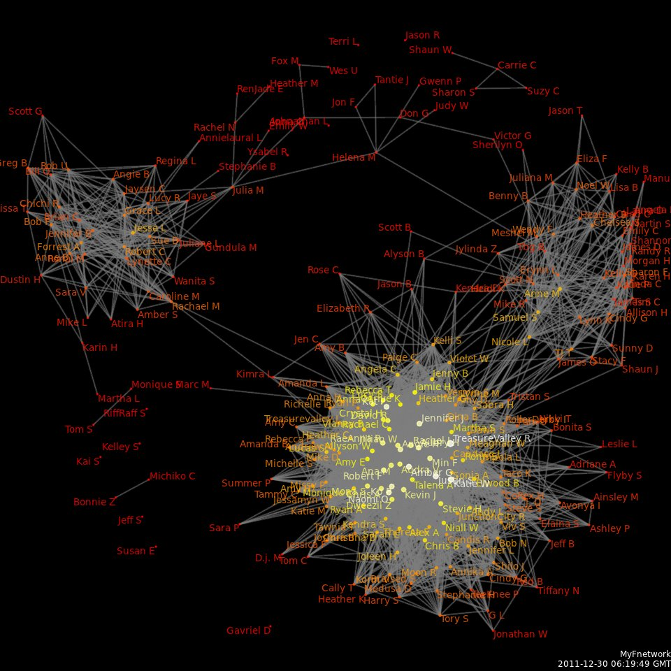 Data visualization of Facebook relationships by the third-party app MyFnetwork.